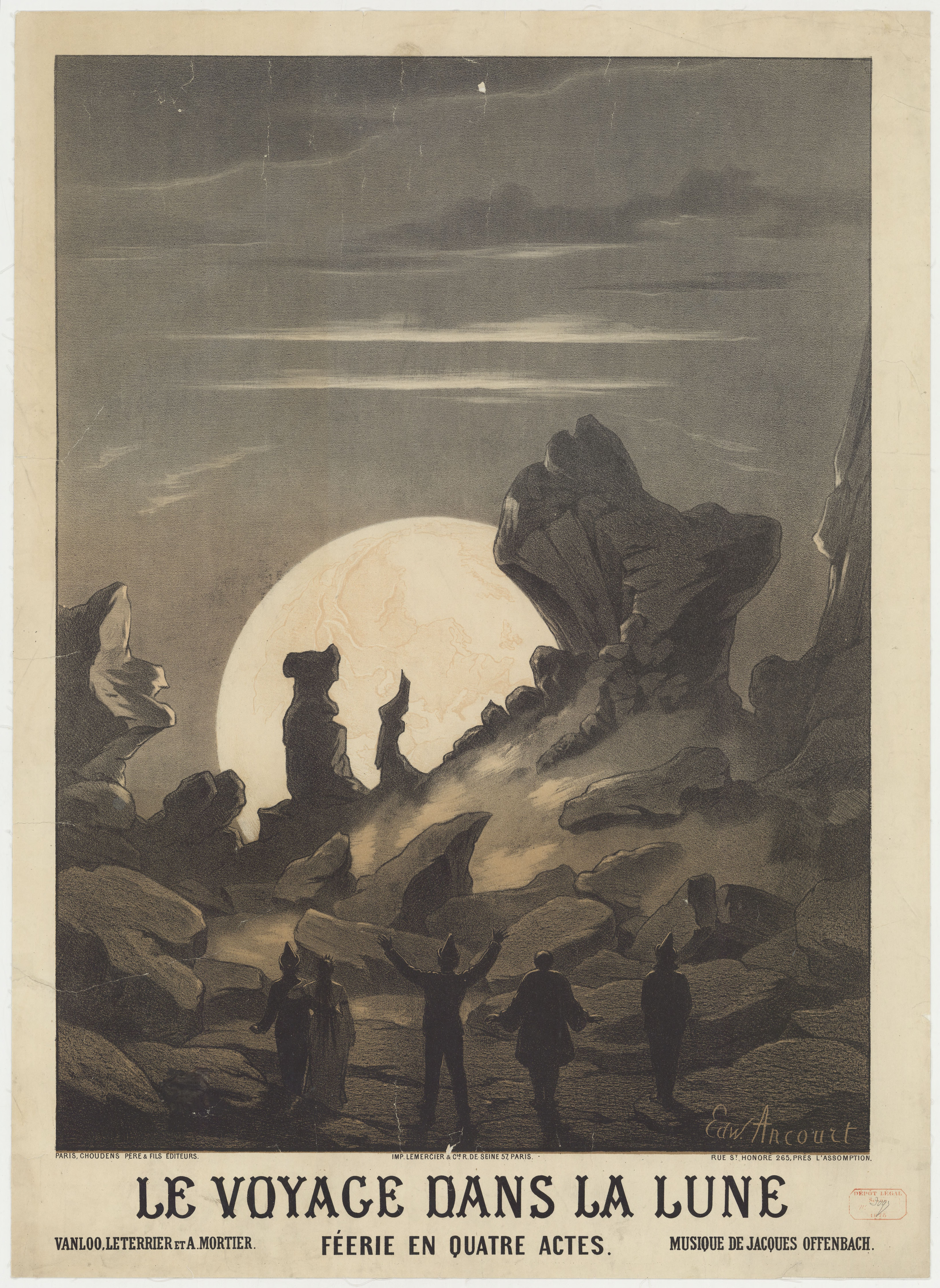 Poster for the original production of Jacques Offenbach's Le voyage dans la lune (1875). Colour lithograph, 76 x 57 cm. This appears to be based on the finale, the earthrise scene, or "Le clair de terre".